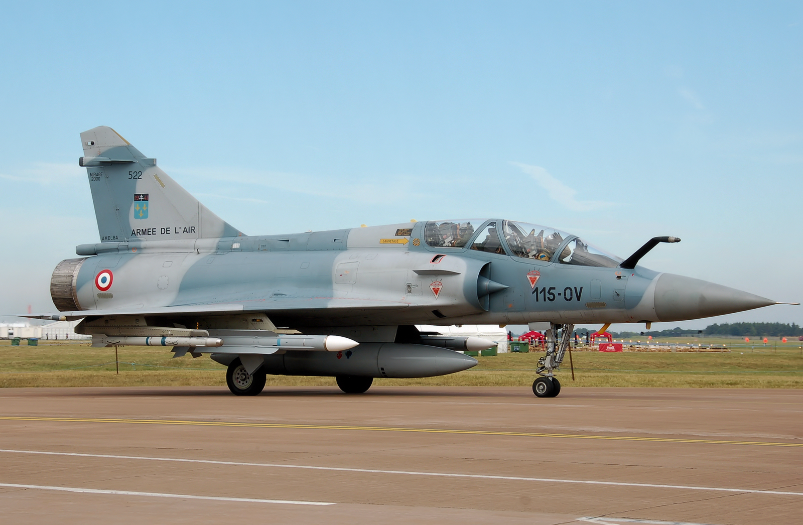 French Air Force Dassault Mirage 2000B (522/115-OV) taxis to the runway at the 2010 Royal International Air Tattoo, Fairford, Gloucestershire, England.